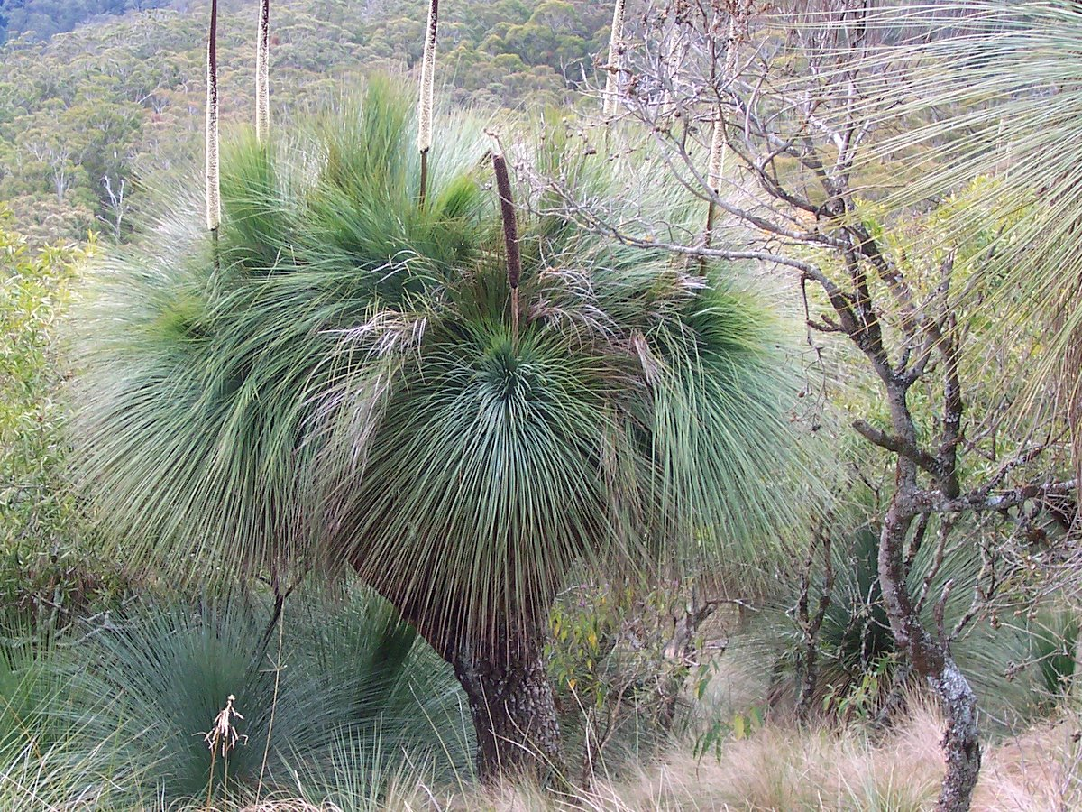 Xanthorrhoea, most likely to be X. glauca (was described as X. australis), Mount Cabrebald, Barrington Tops National Park, Australia